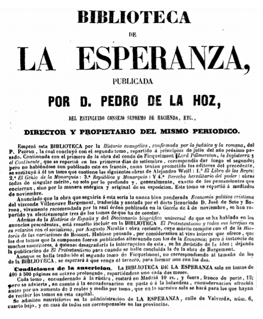 Biblioteca de La Esperanza